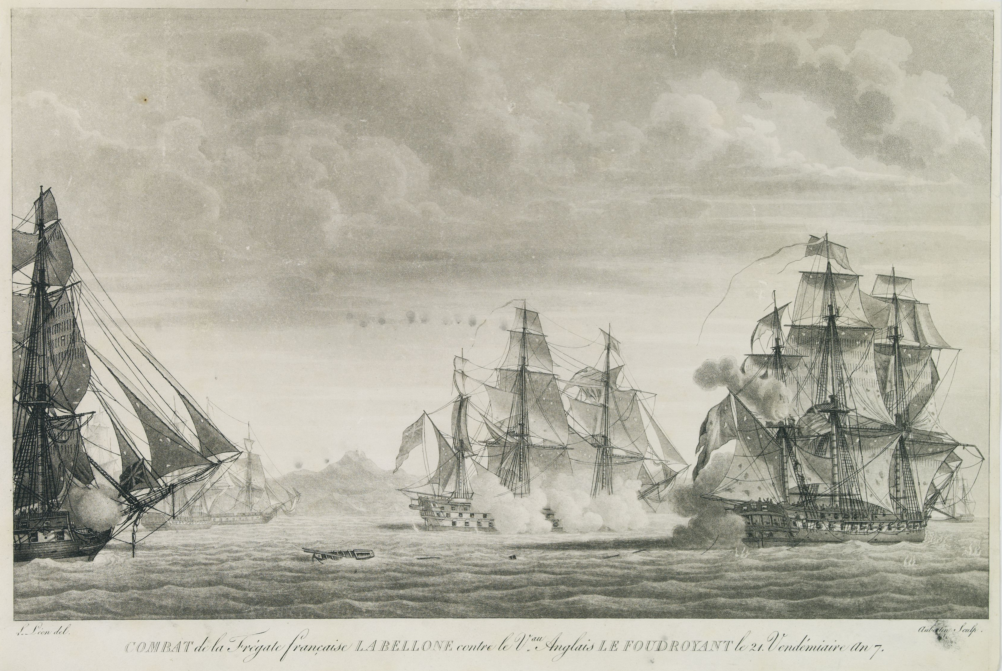 Episode of the Battle of Tory Island